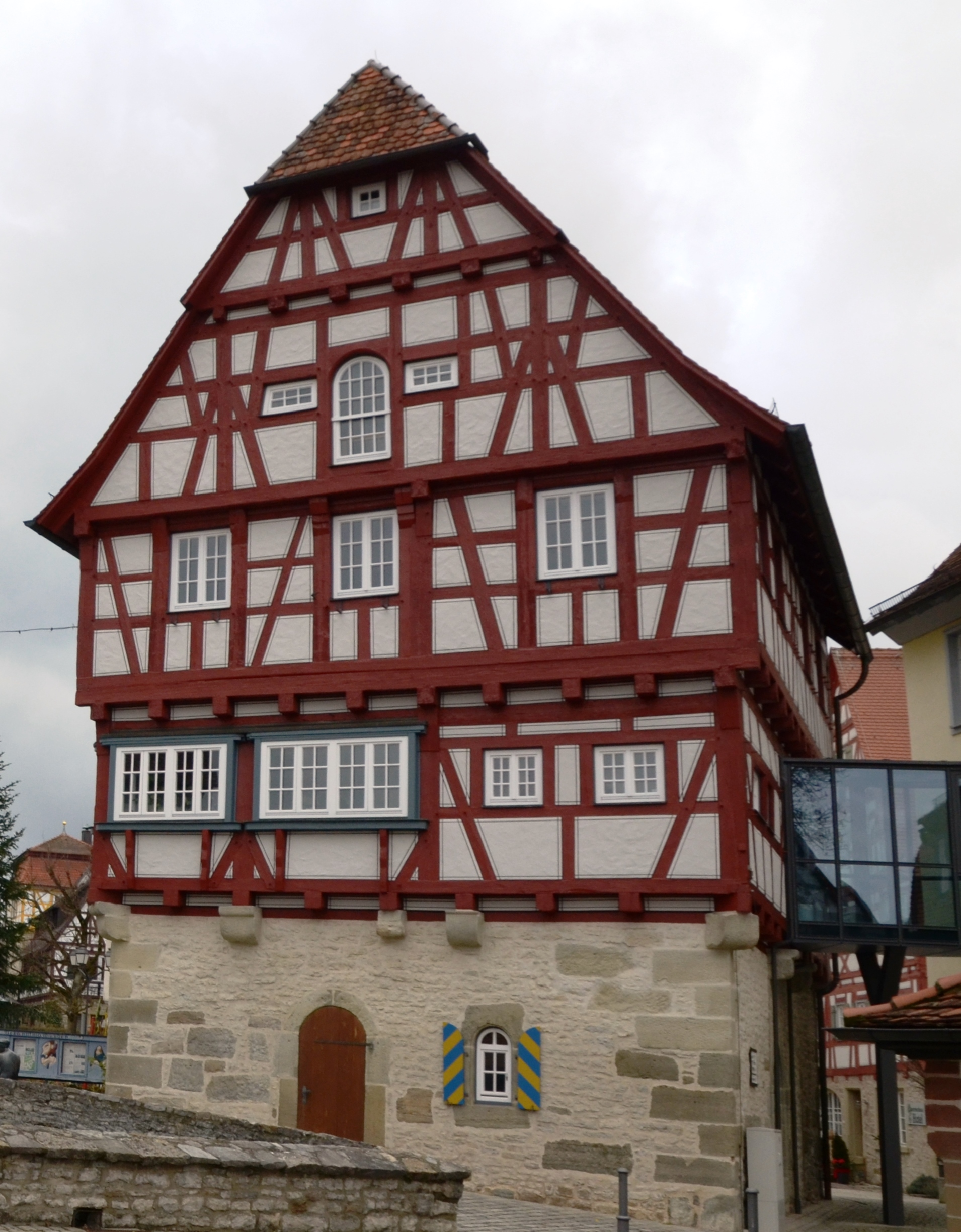 Vellberg, Im Städtle 27, Altes Amtshaus.jpg